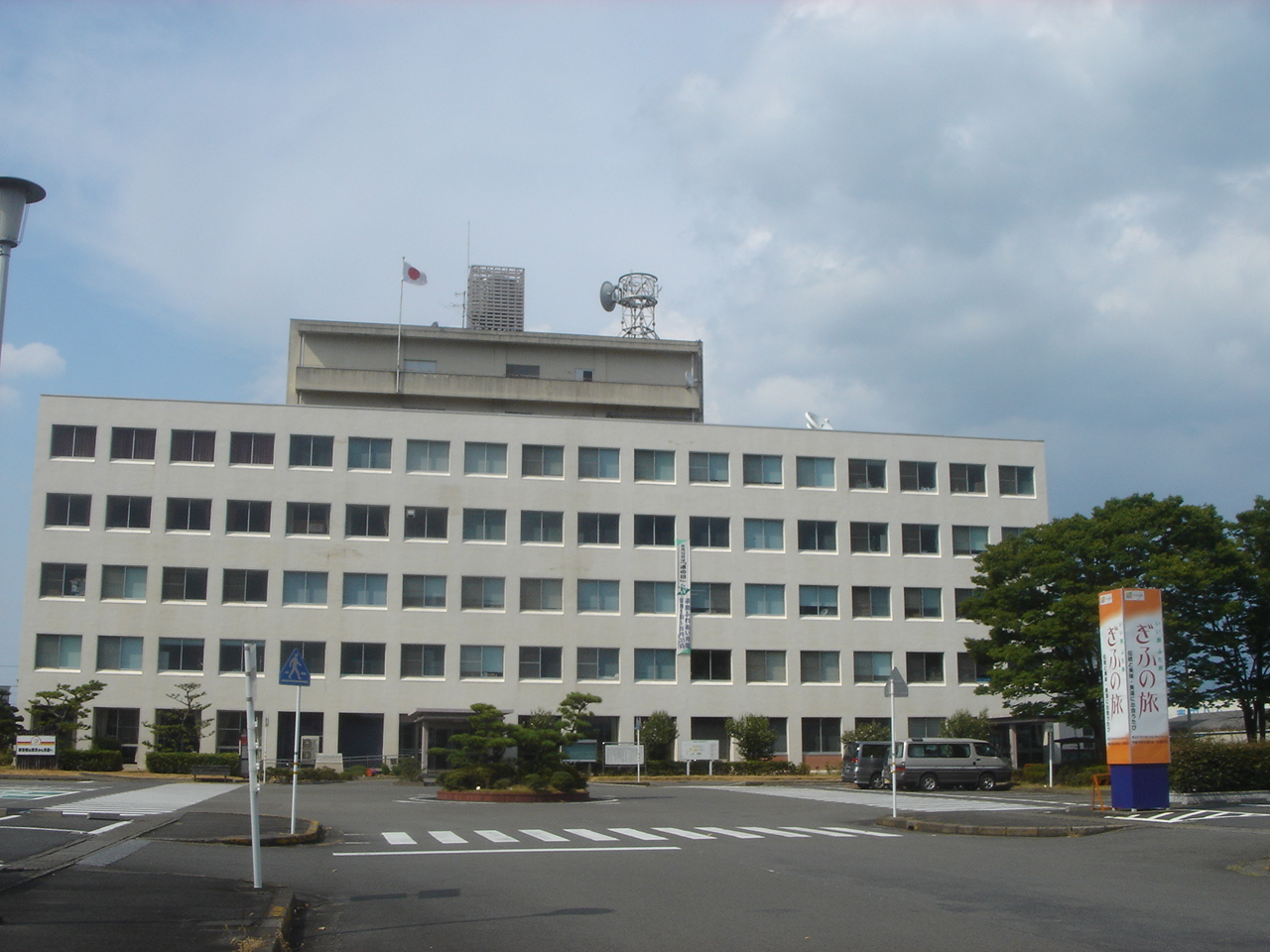 Seino Sogo Chosya(Prefectural office) in Ogaki(西濃総合庁舎の本館),Ogaki,Gifu,Japan(岐阜県大垣市)で撮影